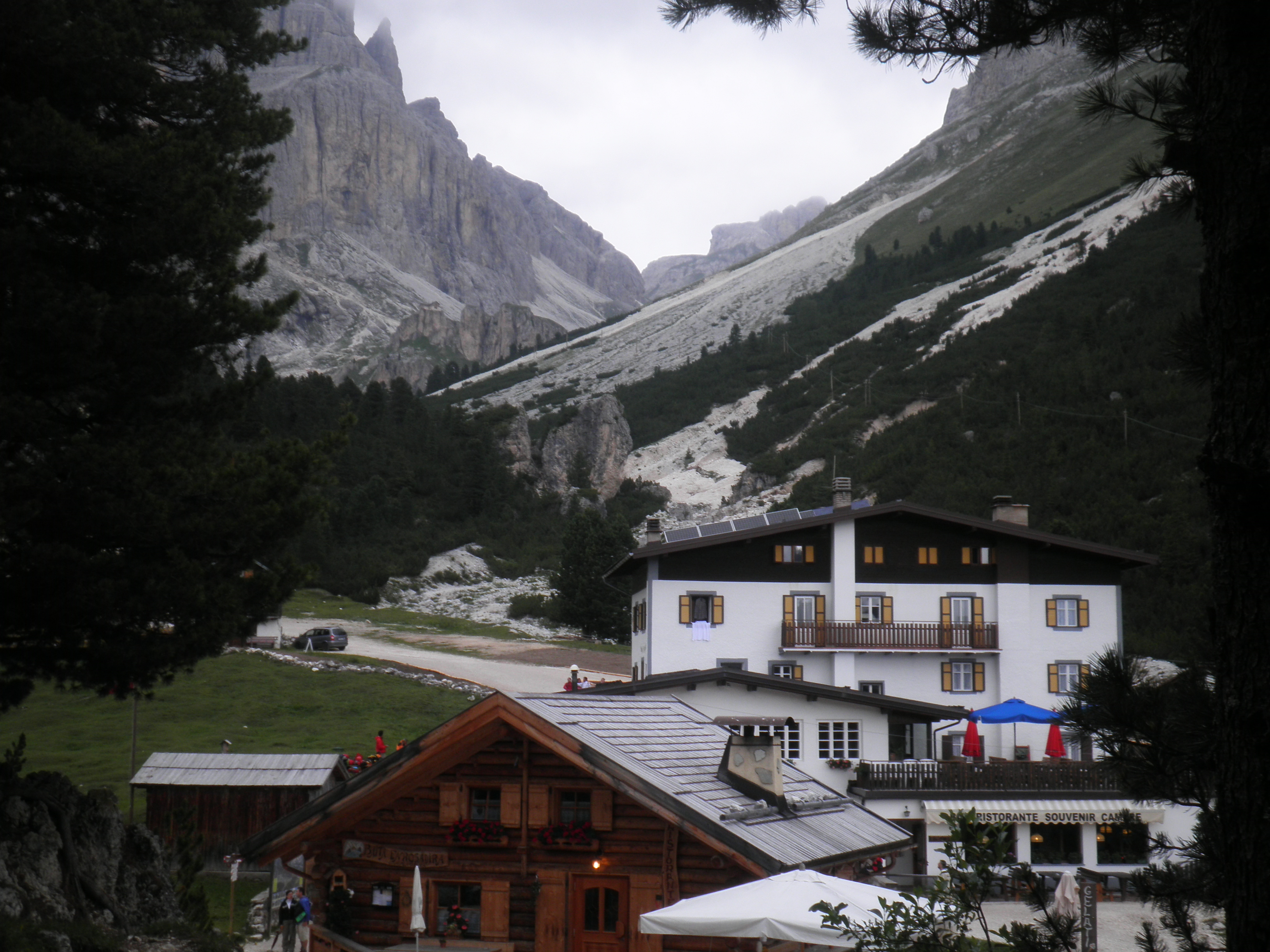 The location of Gardeccia, in Vajolet Valley, Dolomites. Here arrived the 15th stage of the 94th cycling Giro d'Italia.